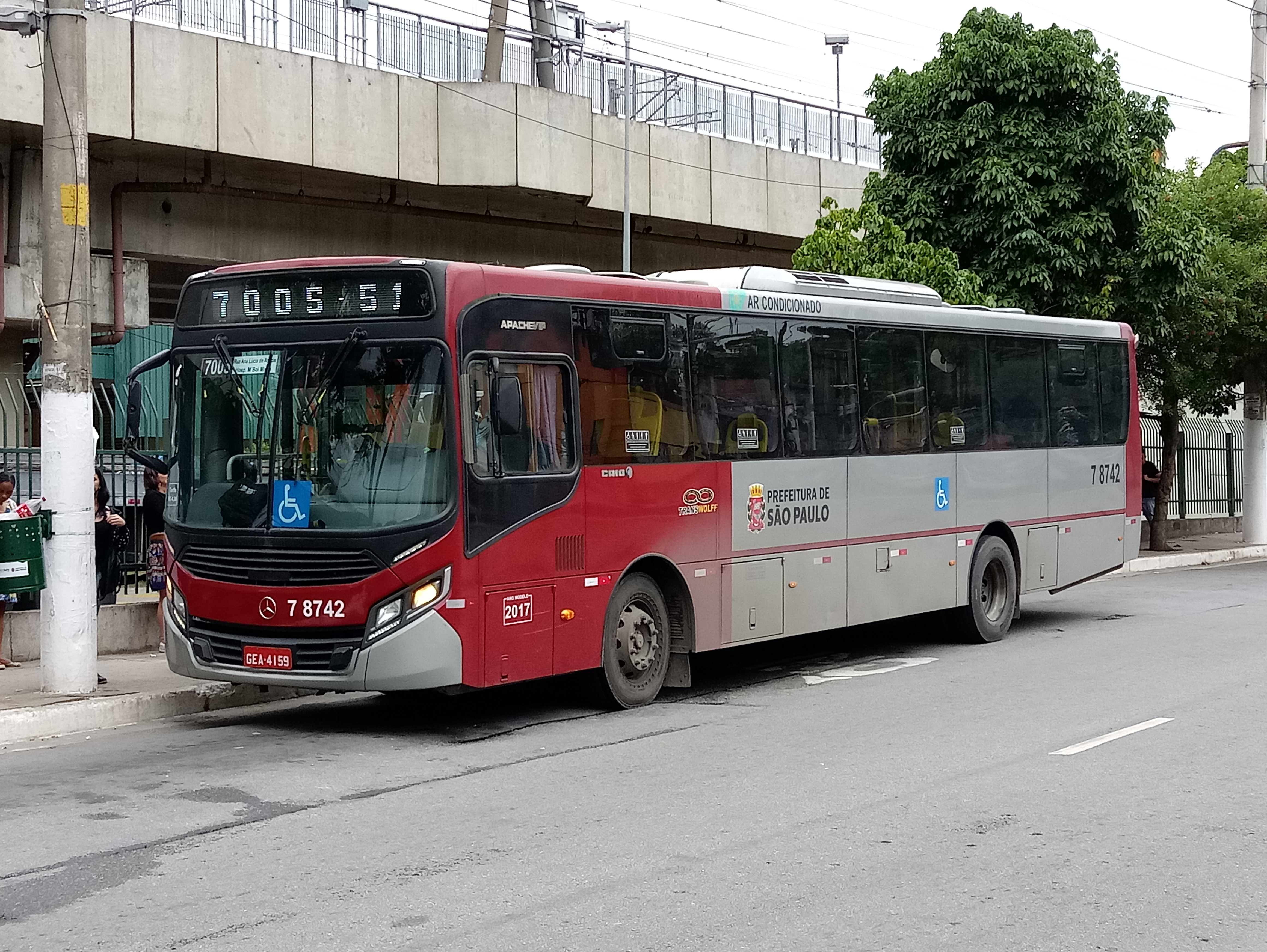 CAIO Apache Vip IV, Mercedes-Benz OF-1721 Bluetec 5, which belongs to Transwolff, at 7005-51 (Jardim Vera Cruz - Metrô Capão Redondo) bus line end stop.